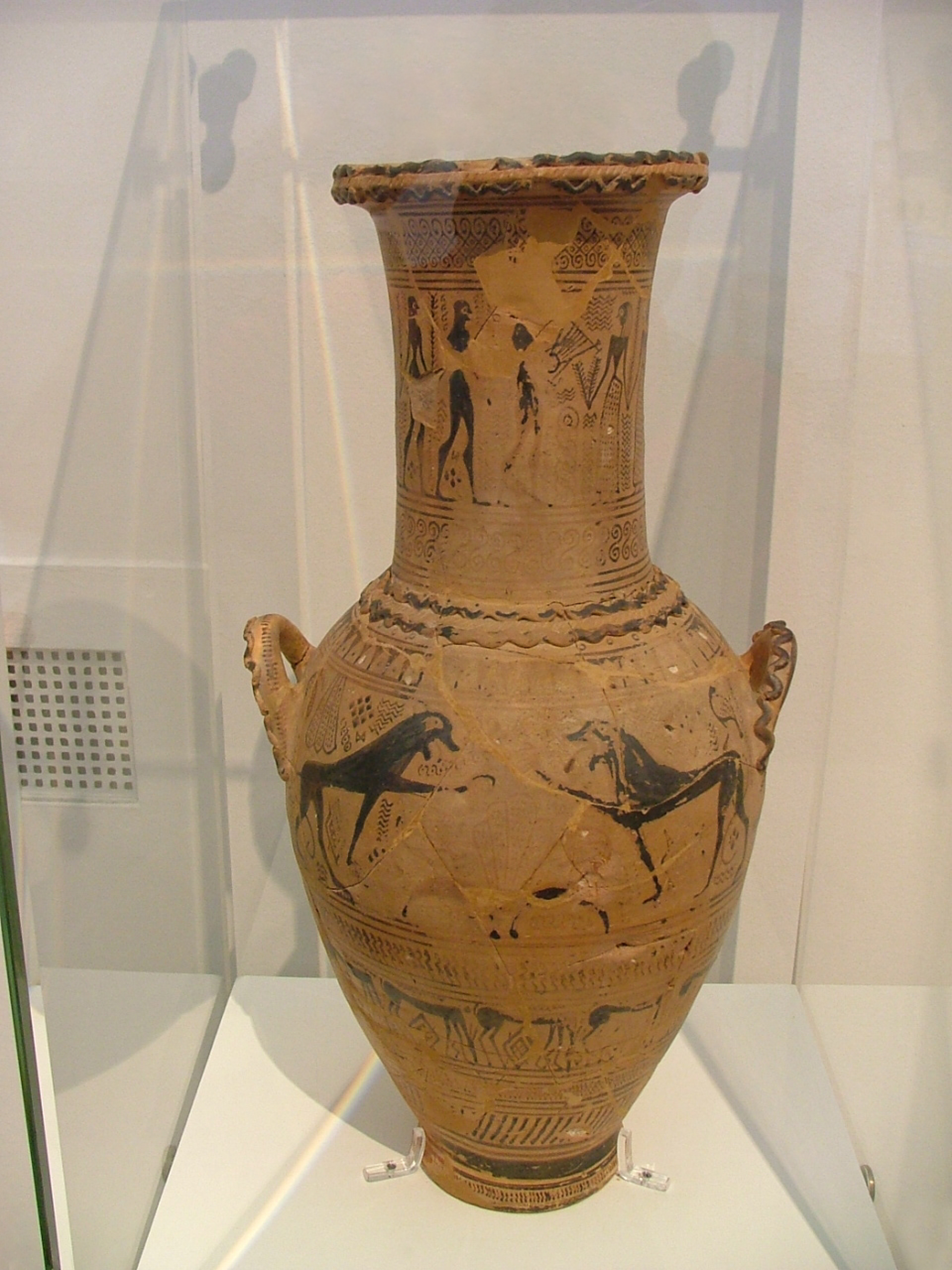 Early Protoattic Hydria.